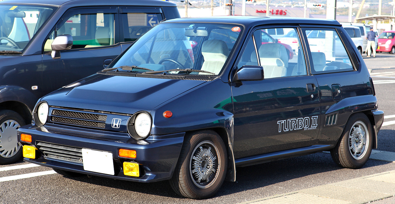 Honda City Turbo II ( with Mugen alloy wheels )